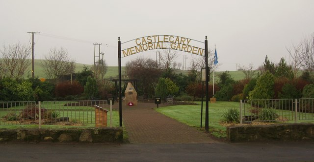 Castlecary Memorial Garden Built by the residents of the village to commemorate two children who were killed on this spot (previously the swing-park) in a tragic accident in the 50's. It was opened in 1999.